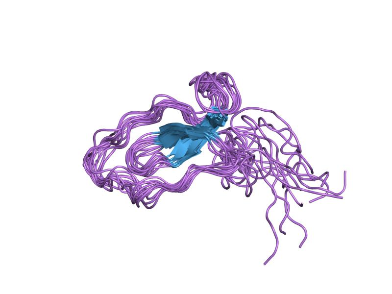 Cartoon representation of the molecular structure of protein registered with 2rel code.